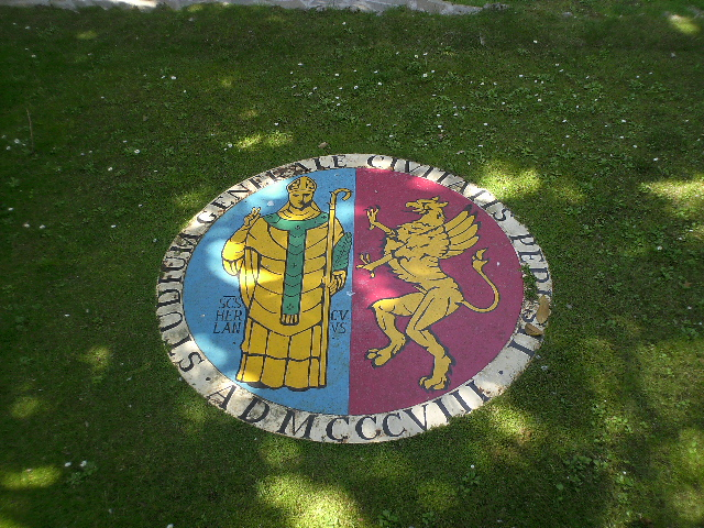 Medieval kitchen garden in Perugia, Italy